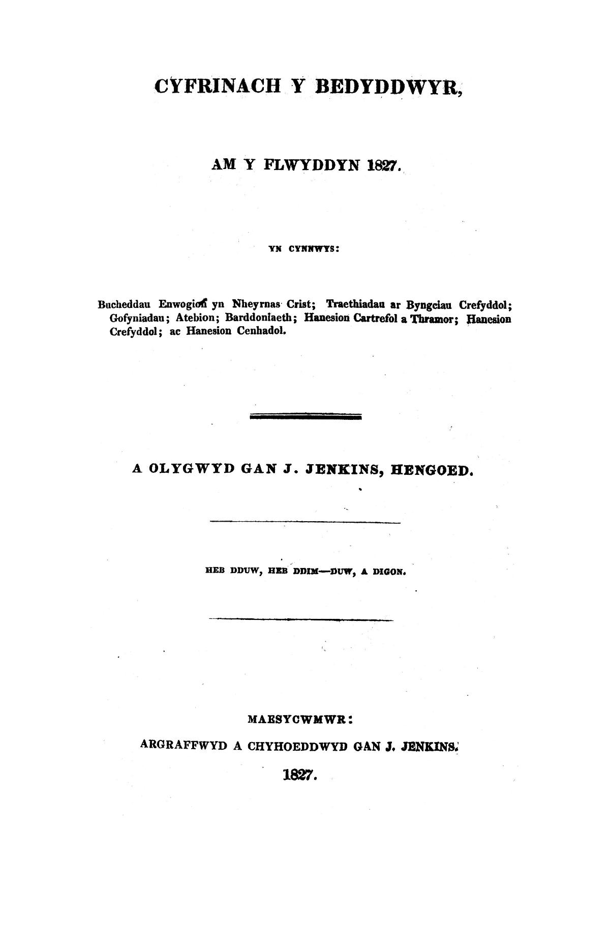 A monthly Welsh language religious and literary periodical serving the Baptists of Glamorganshire and Monmouthshire. The periodical's main contents were religious articles, biographies, domestic and foreign news and poetry. The periodical was edited by the minister and theologian, John Jenkins, Hengoed (1779-1853).